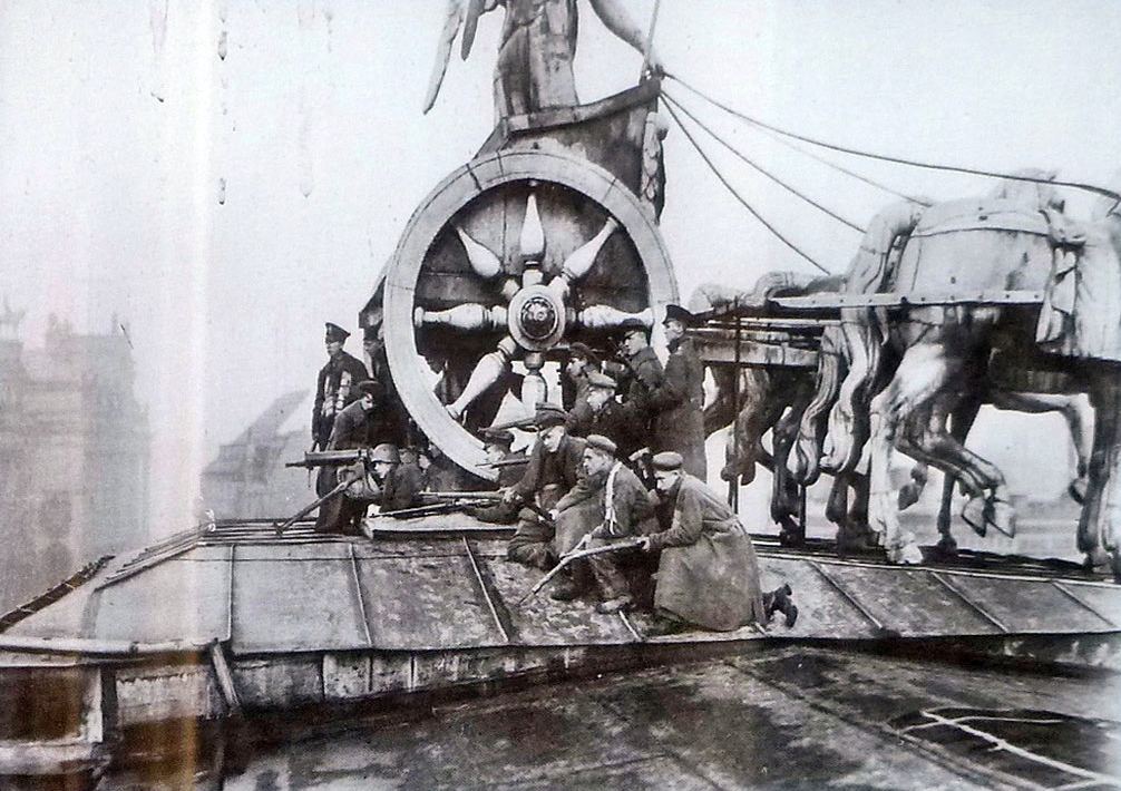 Machine-gun position on the quadriga of the Brandenburger Tor, Berlin, during the Spartakus Uprising; 7 January 1919; Landesarchiv Berlin